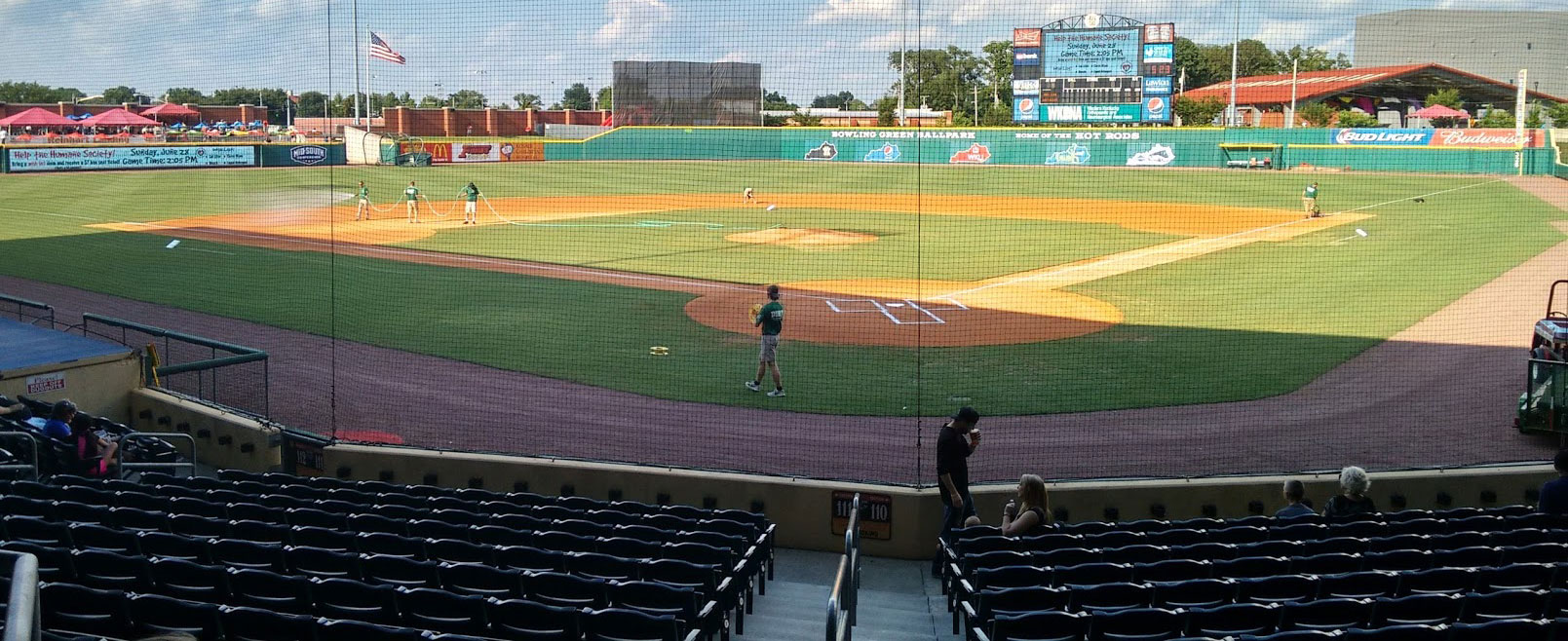 A view of Bowling Green Ballpark from behind home plate. Protective netting obscures the shot.